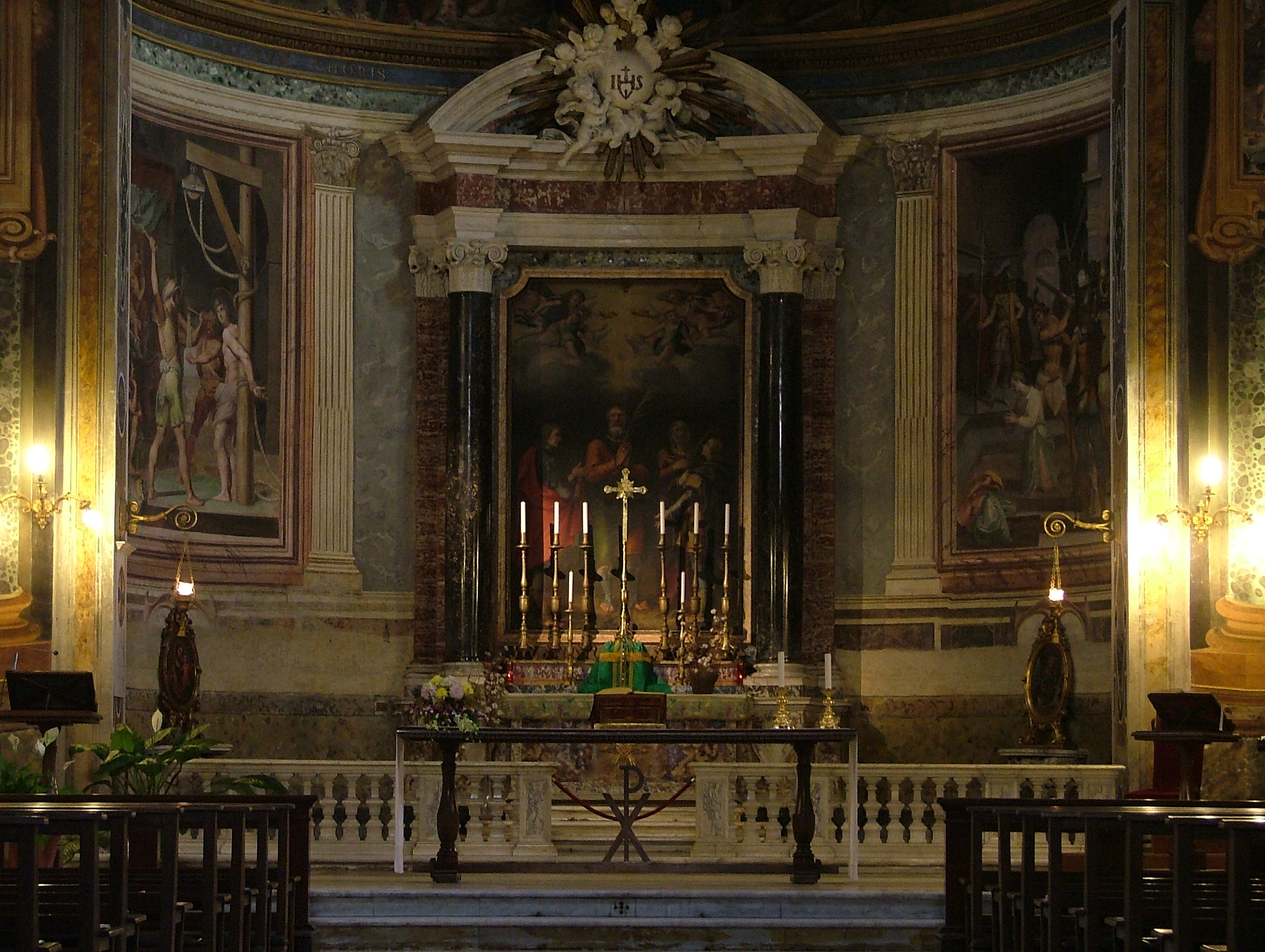 The Alter and painting, Santi Vitale.